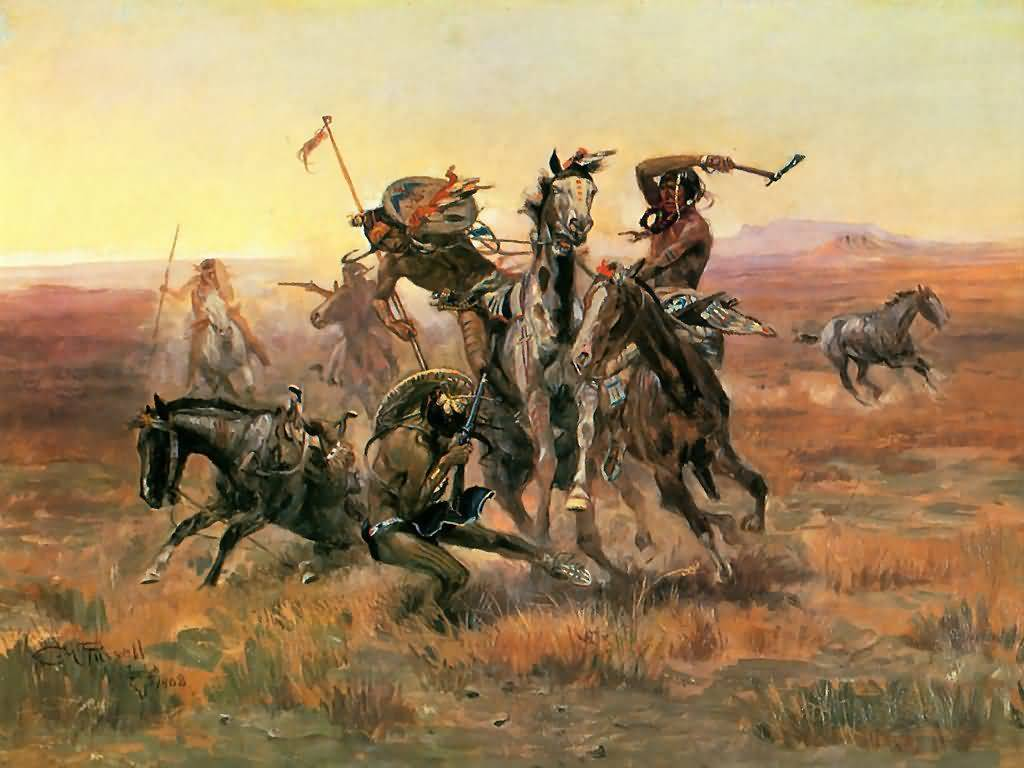 Painting When Blackfoot And Sioux Meet by Charles Marion Russell